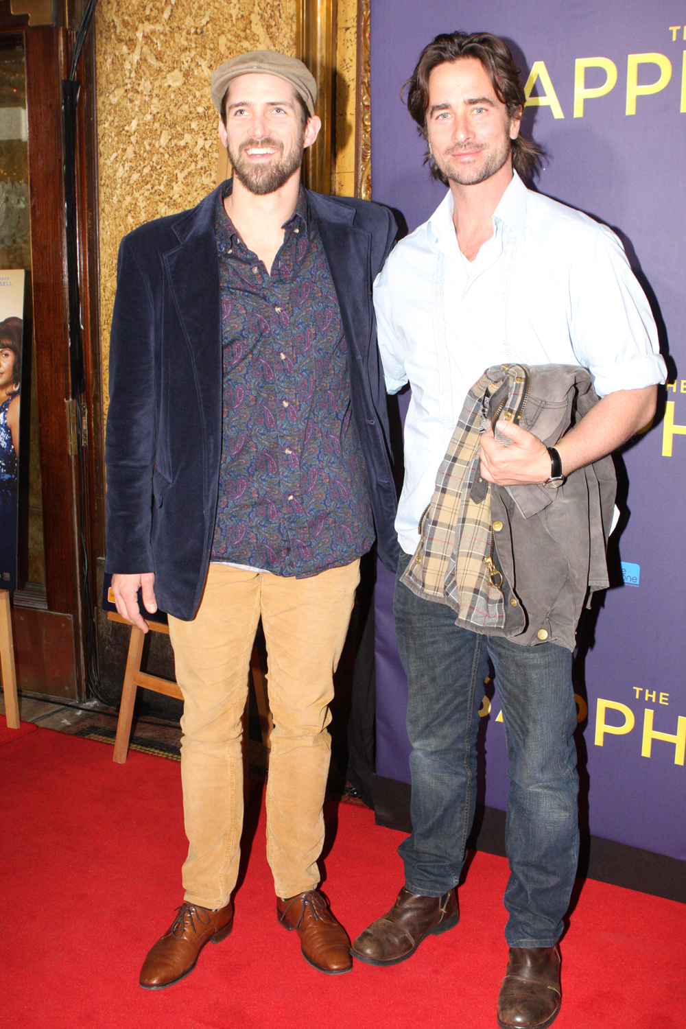 Actor Kip Gamblin at The Sapphires movie premiere at State Theatre, Sydney, Australia